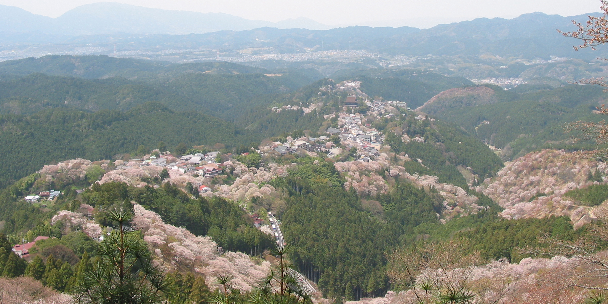 Cherry blossoms of Yoshinoyama. Place:Yoshinoyama Yoshino Yoshino District, Nara Pref., Japan.